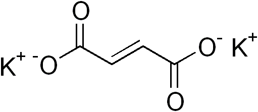 chemical structure of potassium fumarate